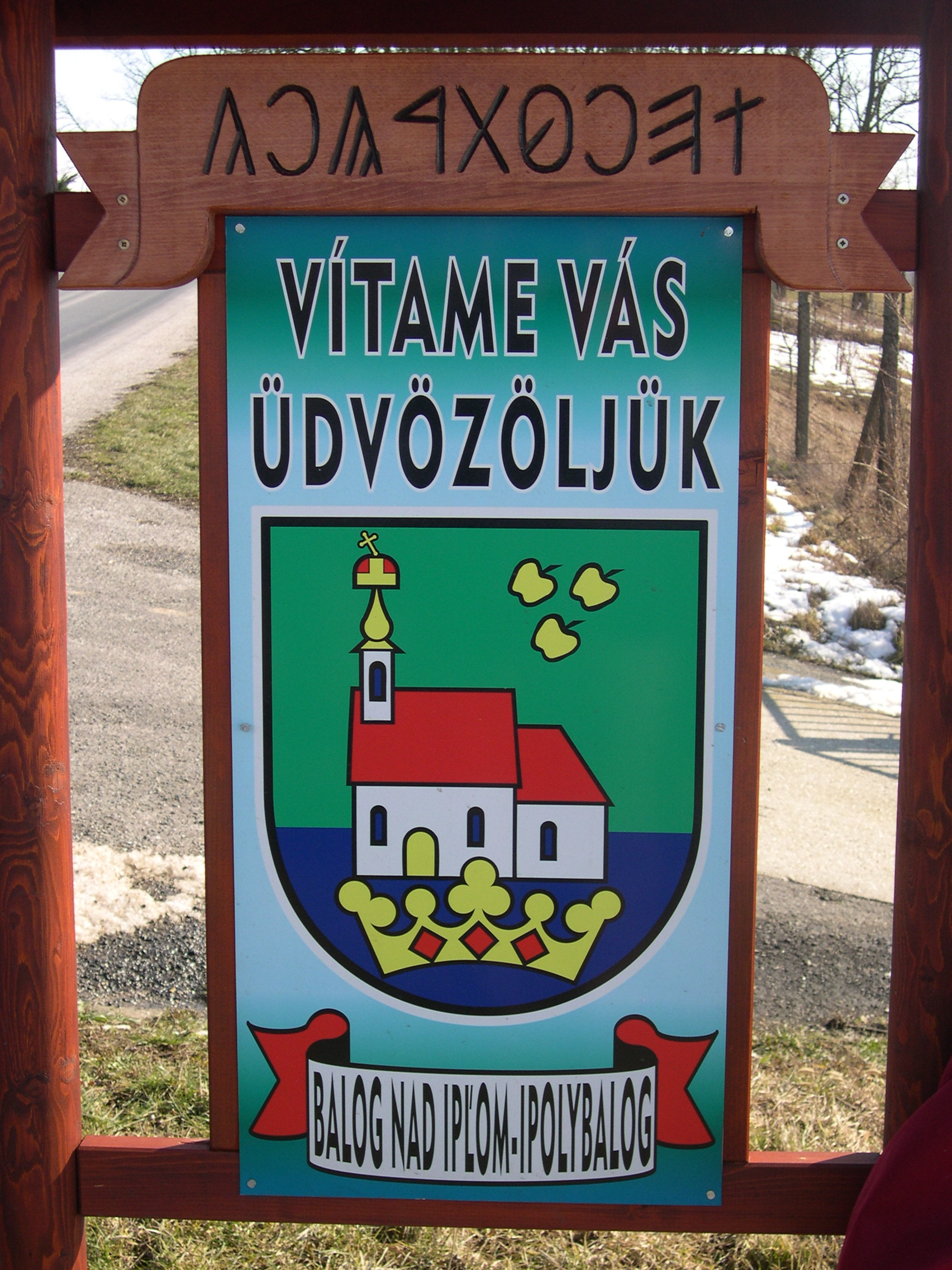 Bilingual welcome sign of Ipolybalog/Balog nad Iplom. The name of "Ipolybalog" is written in Latin and Szekely-Hungarian Rovas scripts